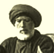 A photo of Mustapha el Akkad an horse back with Anthony Quin, Irene Papas, Mona Wasif and Abdullah Ghaith.